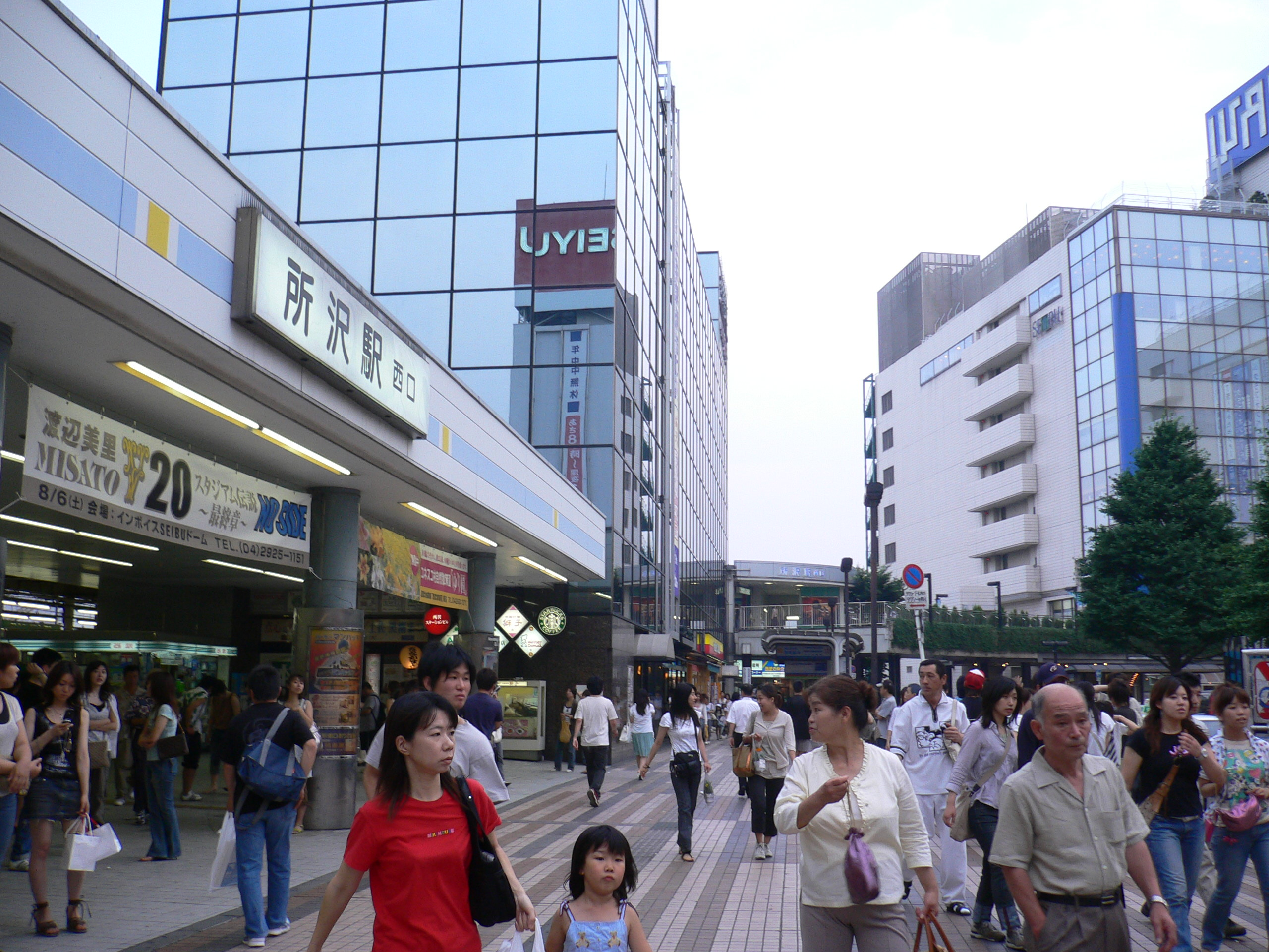 Tokorozawa Station (所沢駅), Tokorozawa C, Saitama P.